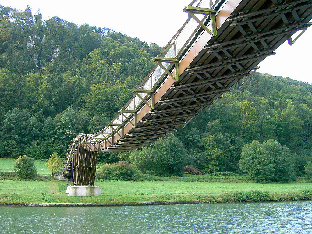 Wooden bridge ober the Altmuehl/Main-Danube Canal at Essing. At 193 meters it's the longest wooden bridge in Europe as of 2004.